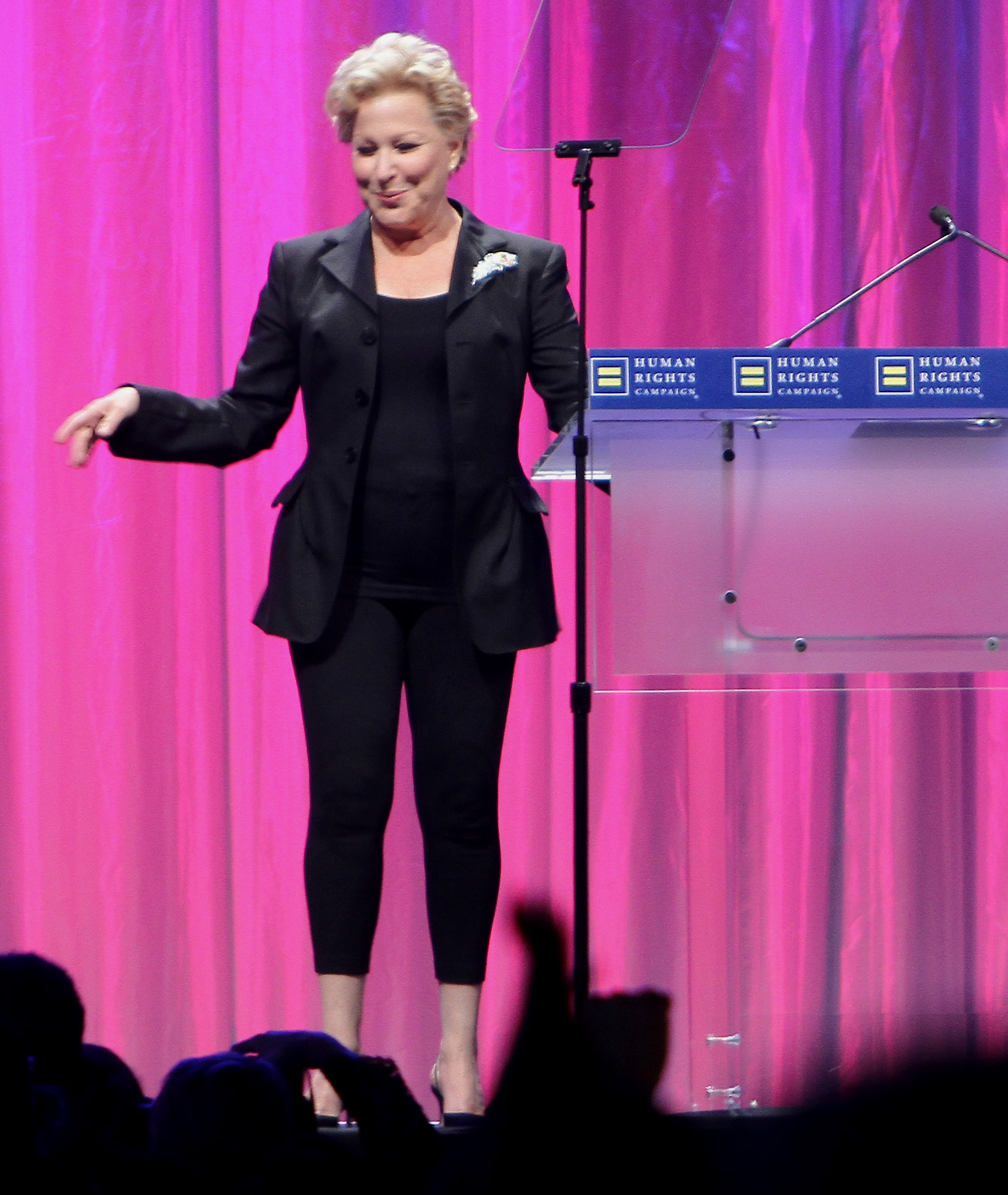 Bette Midler at the 2010 HRC Annual Dinner